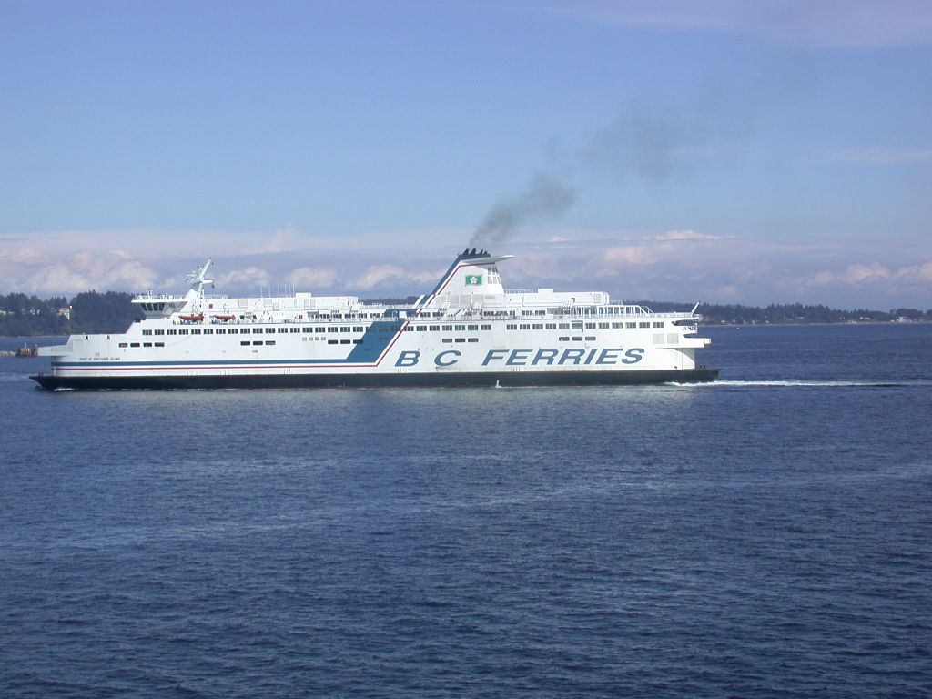 a ferry of BC Ferries.